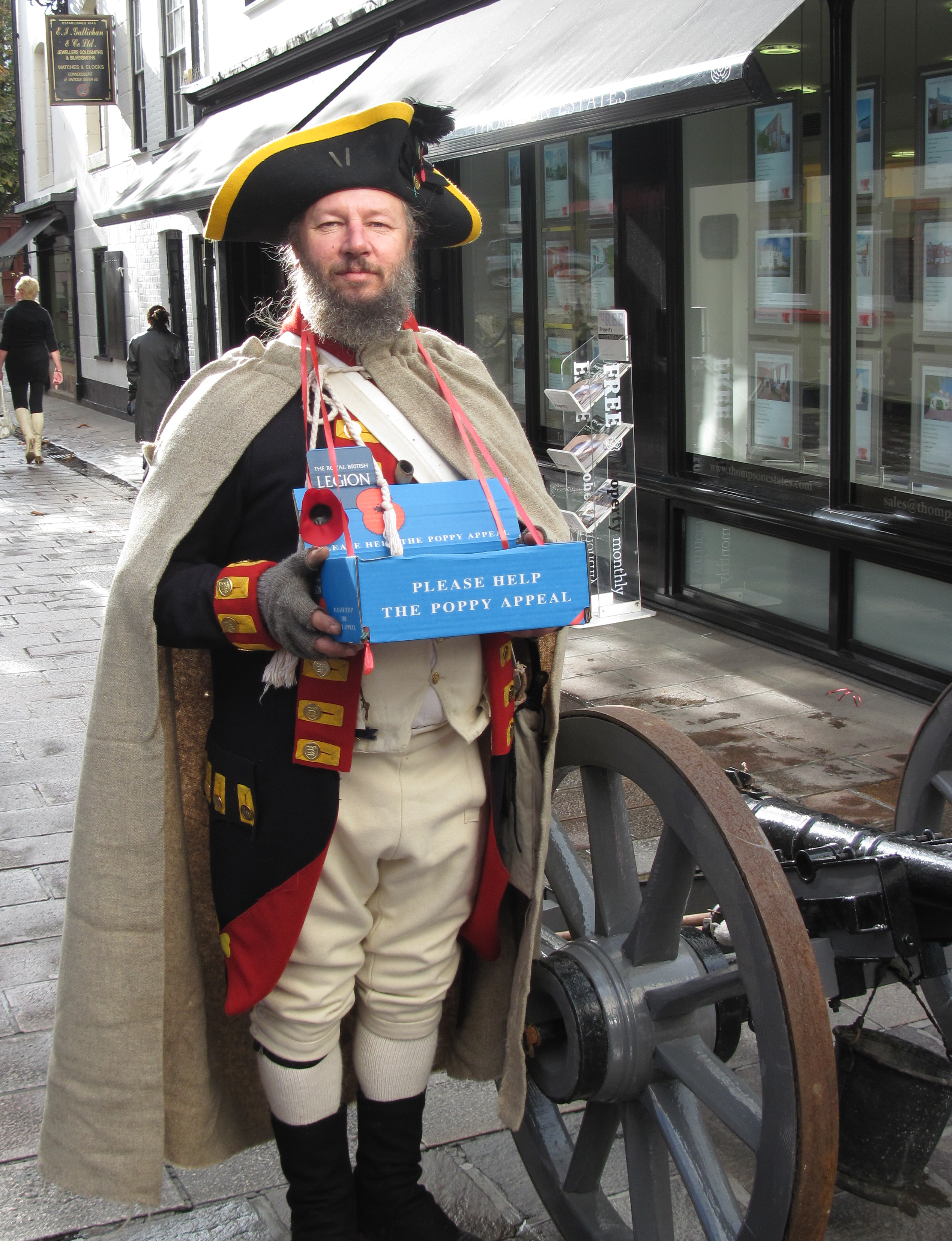 Poppy Appeal, November 2009, Jersey